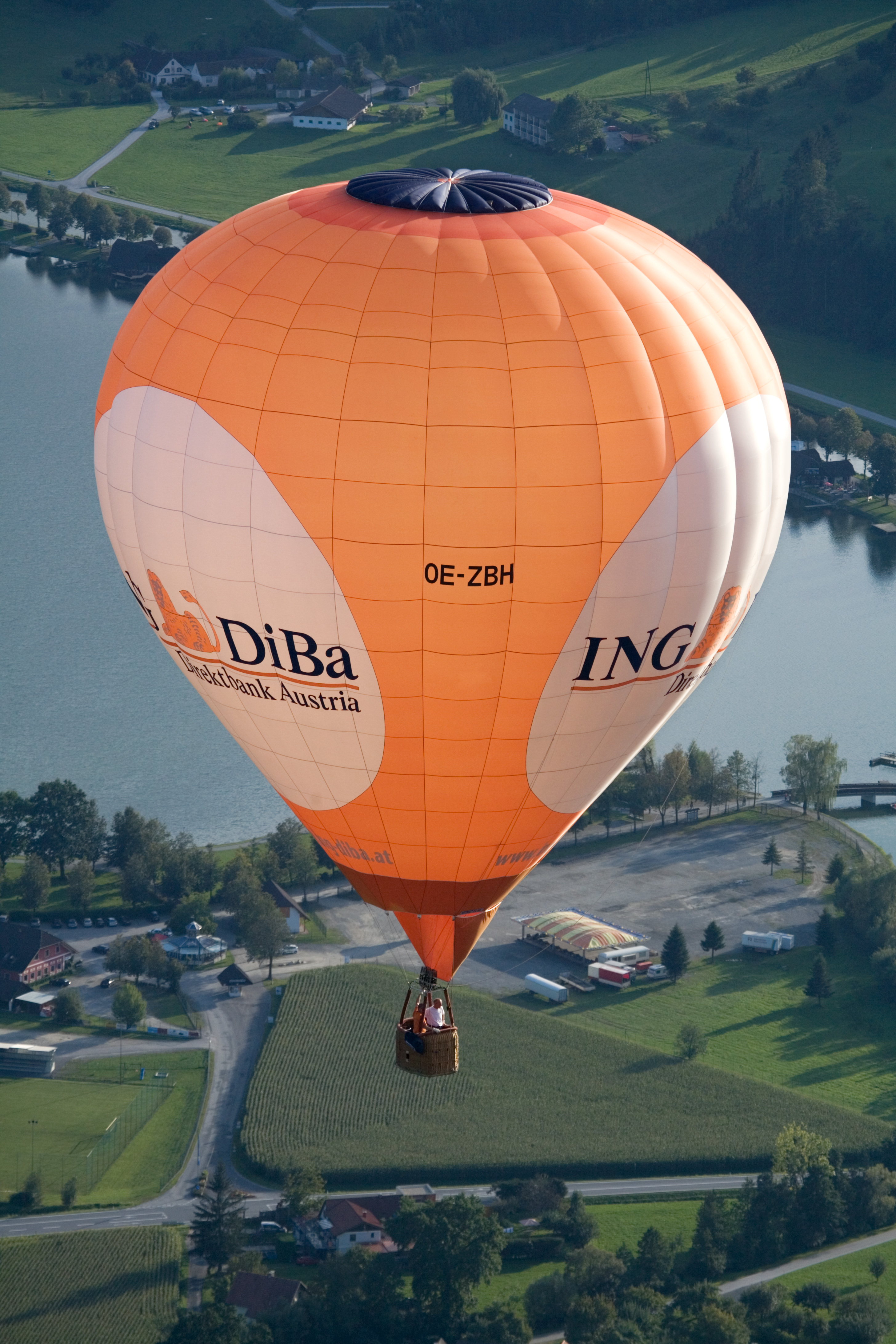 Hot Air Balloon Festival - Primagaz Ballonweek Stubenberg am See, Austria 2009